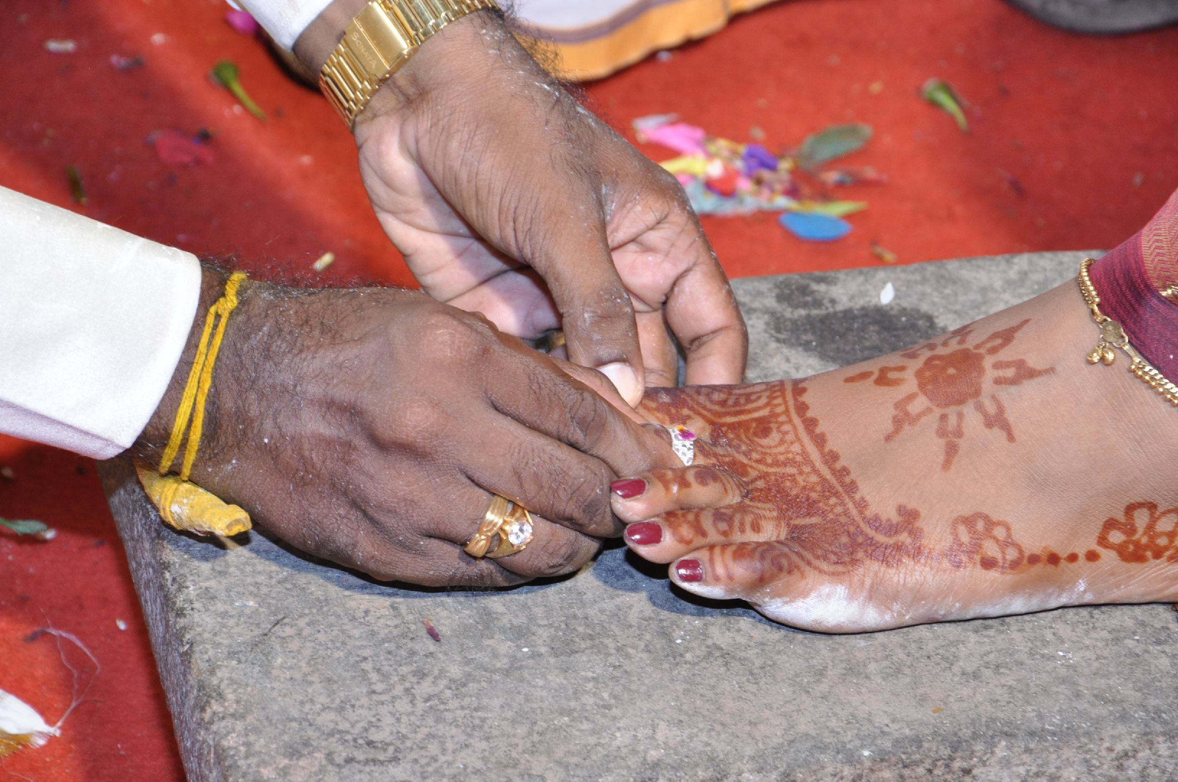 Groom wearing Metti to the bride